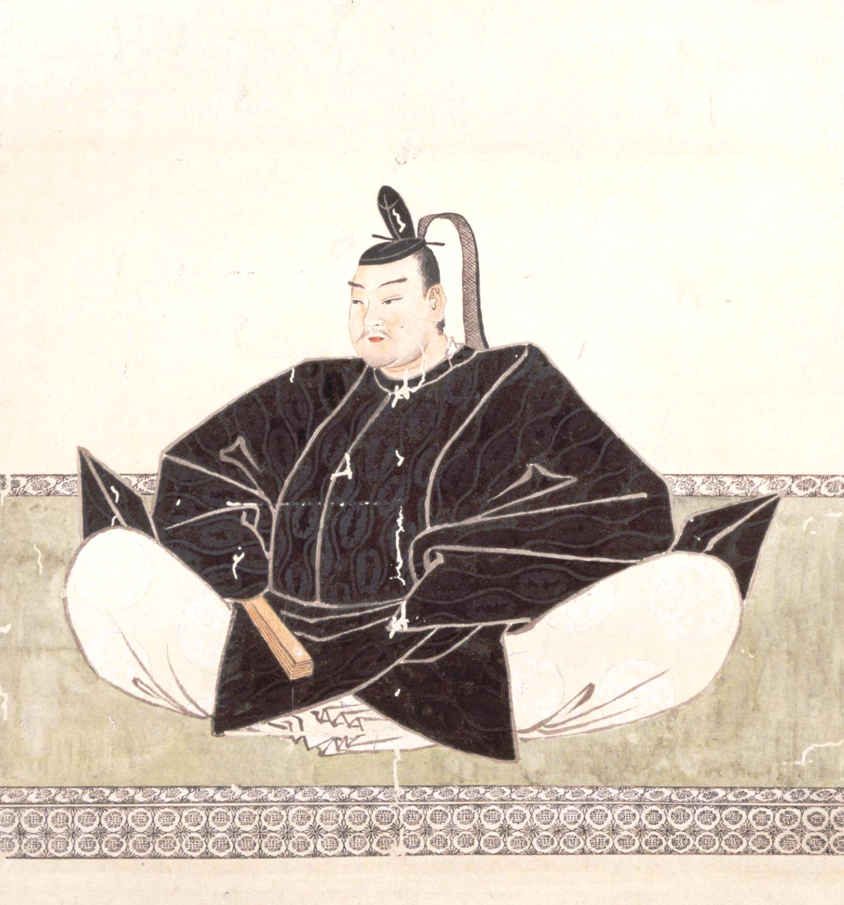 Portrait of Kujō Michifusa